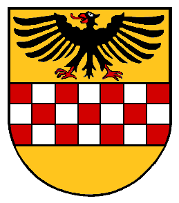 Old coat of arms of Amt Westhofen in Westhofen (Schwerte)